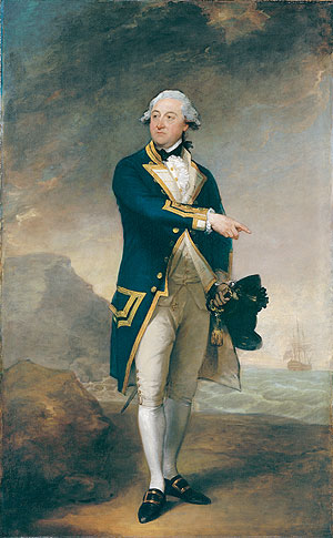 Caption from the museum's website In 1785 the British naval officer John Gell (1738–1806) had just completed his duty on the seventy-gun Monarca, which he had commanded in a series of battles against the French. For this portrait, Stuart used as a model Sir Joshua Reynolds’s heroic "Commodore Augustus Keppel" (1752; National Maritime Museum, Greenwich, UK). In homage to Reynolds, Stuart employed a combination of fine and slapdash brushwork, conveying an image of both heroism and naturalism. He exhibited "Captain John Gell" at London’s Royal Academy of Arts in 1785, when the British portraitist John Hoppner commented that it was “admirably well-painted without trickery to dazzle the eye or mislead the judgment.”